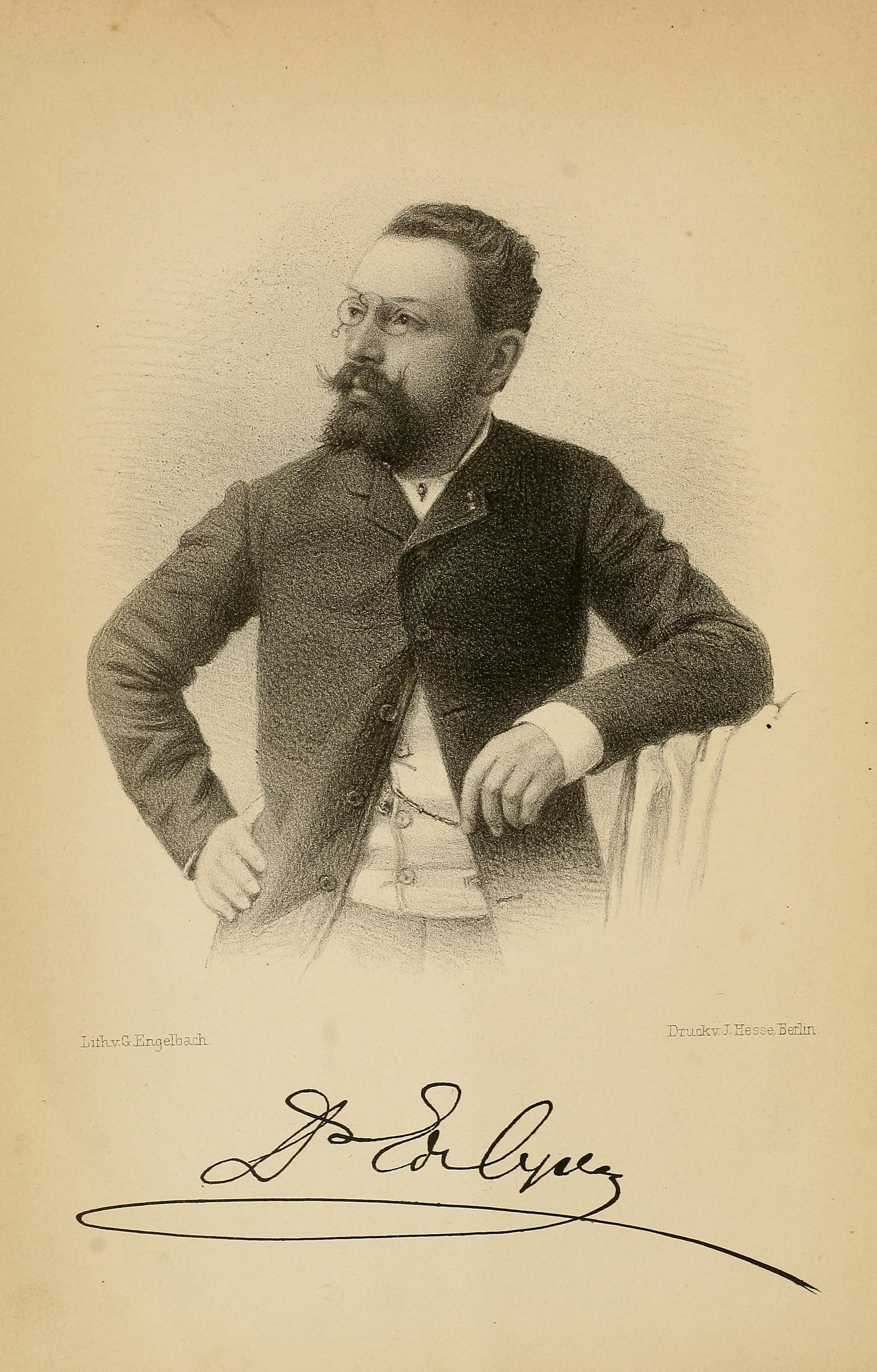 Ilya Cyon